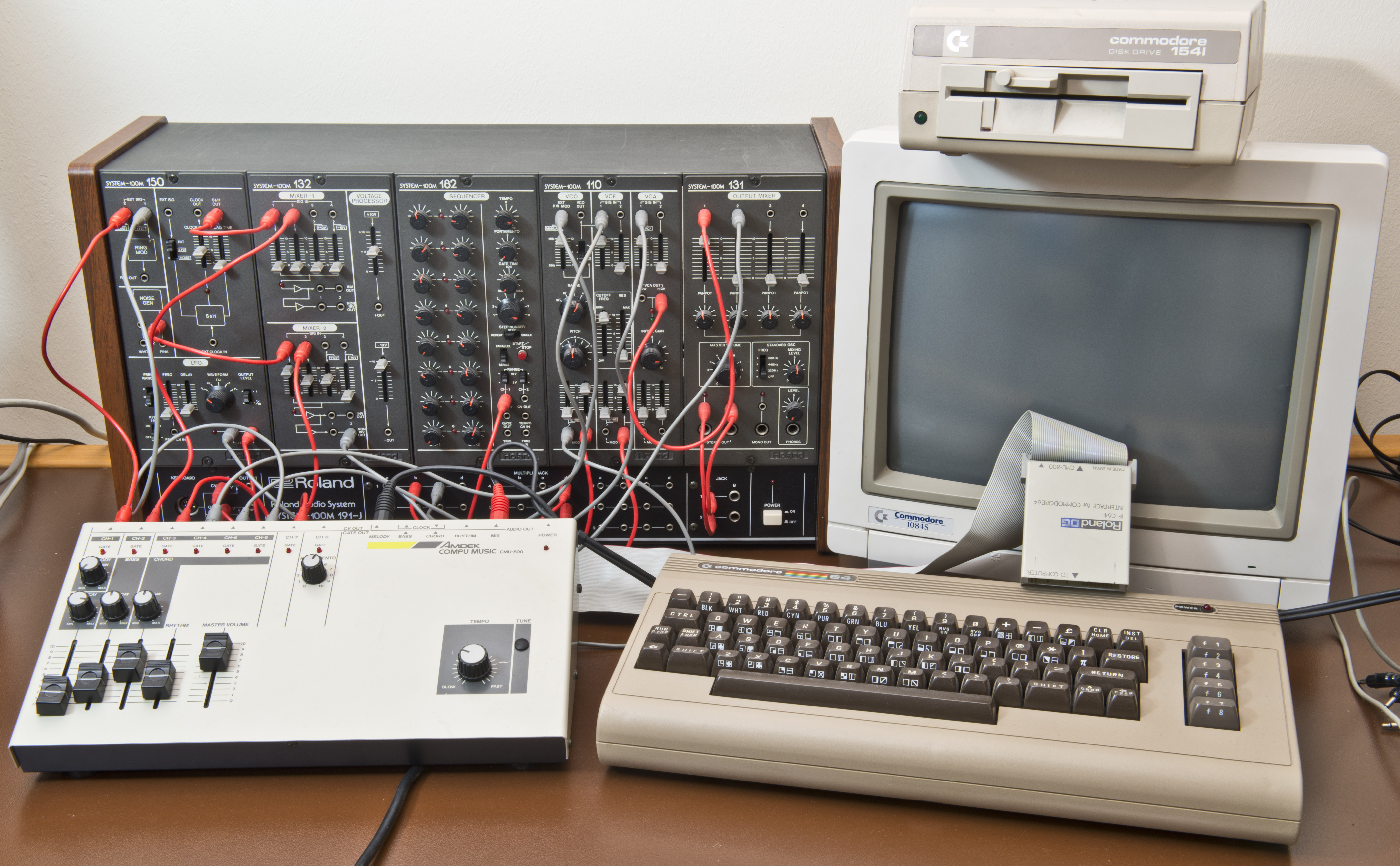 Roland modular analog synthesizer SYSTEM-100M played by a sequencer CMU-800R by AMDEK/Roland controlled by a C64 computer from the 1980s